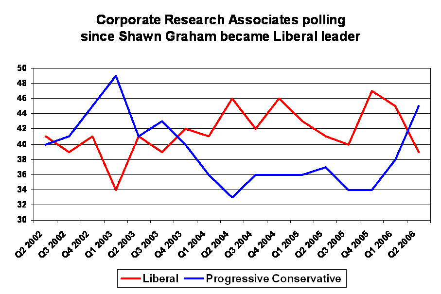 Shawngraham-polling